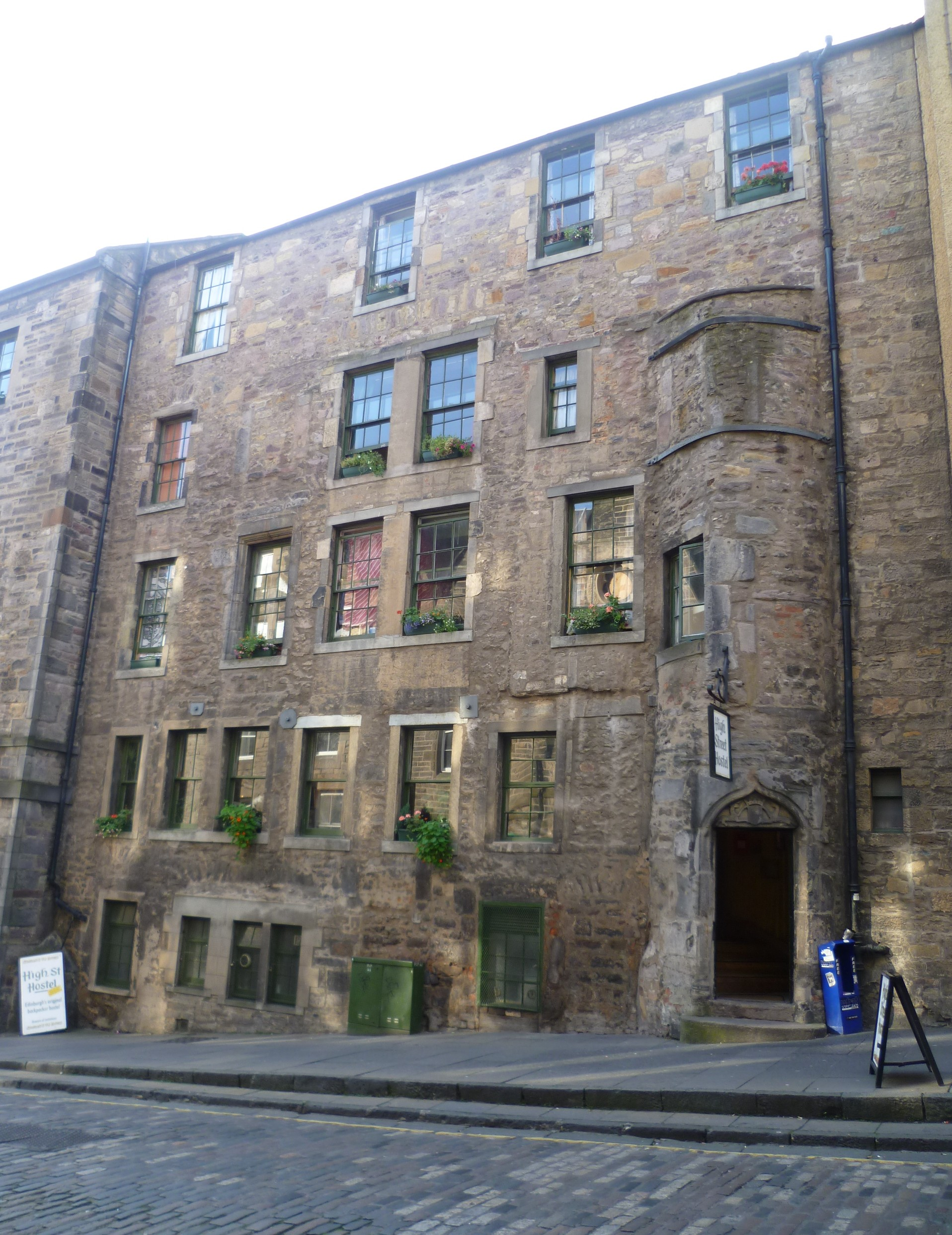 Regent Morton's House, Blackfriars Street (formerly Blackfriars Wynd), Edinburgh